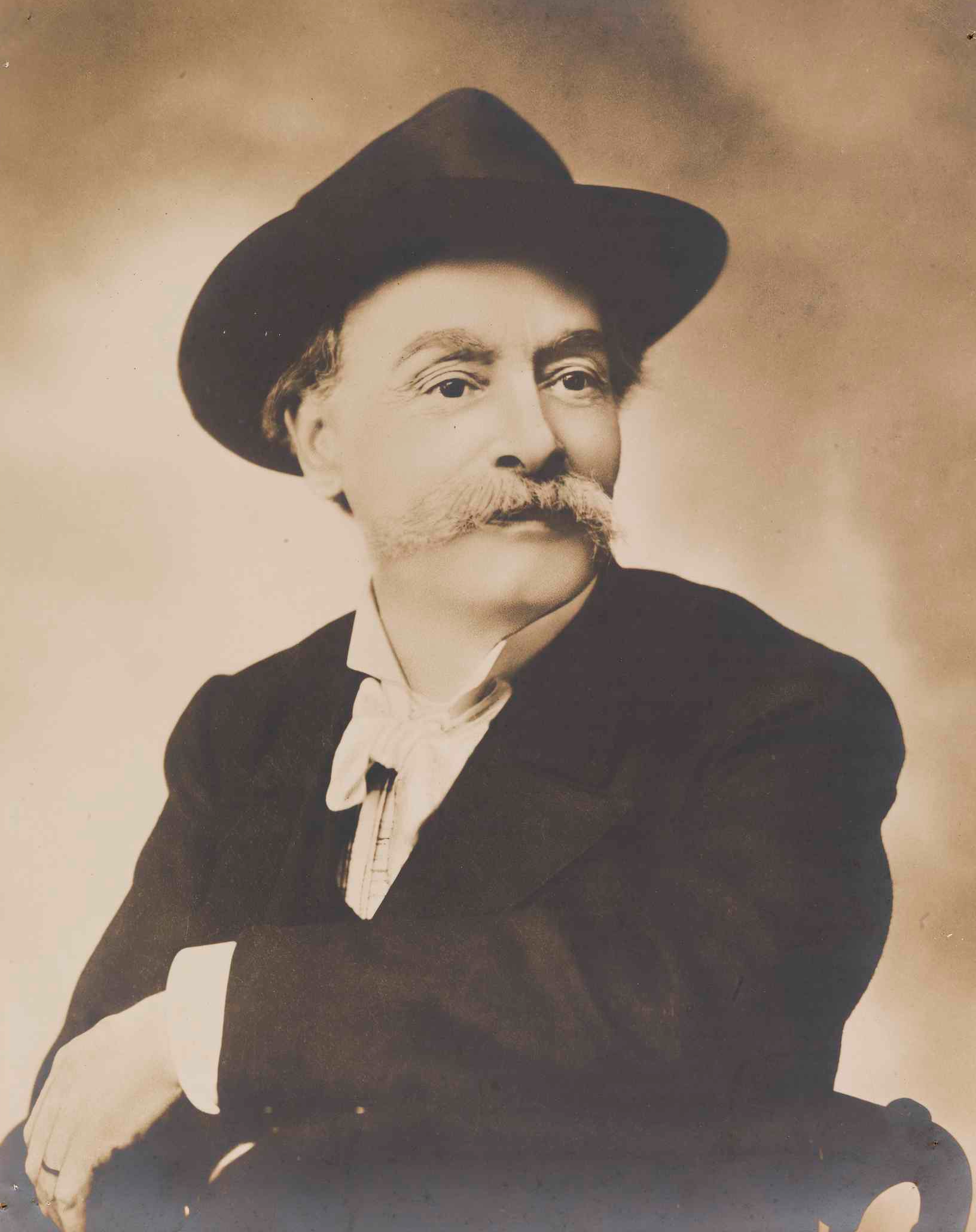 Feio Terenas (1850-1920), a Portuguese journalist and politician.